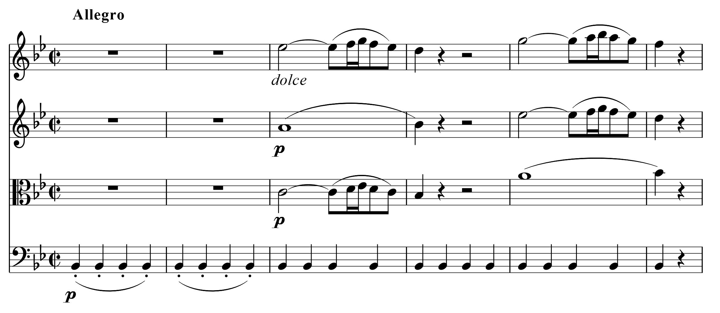 Opening of the first movement of Joseph Haydn's String Quartet Op. 50 No. 1.